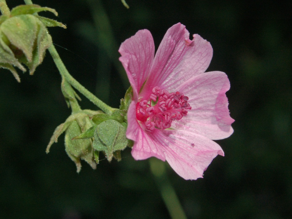 Althaea cannabina - Pian dei Grilli, Genova, Italy